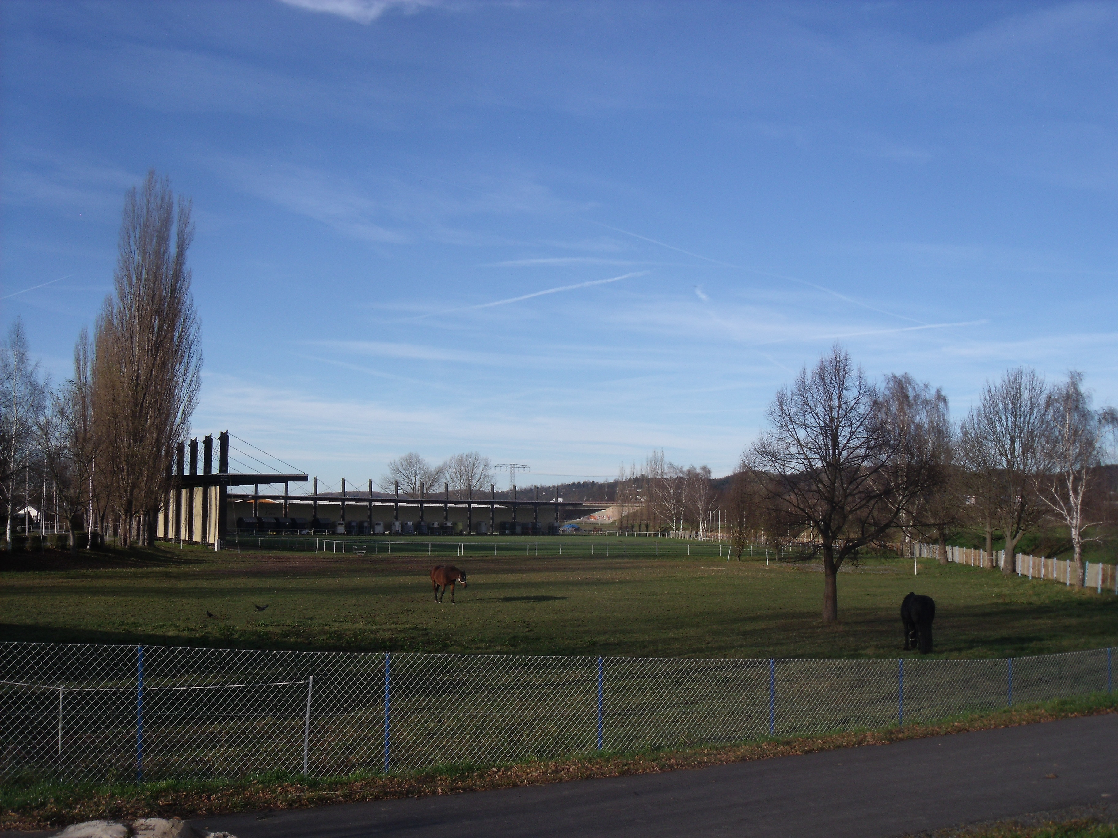 Gera-Milbitz equestrian stadium in Gera, Germany, in November 2010